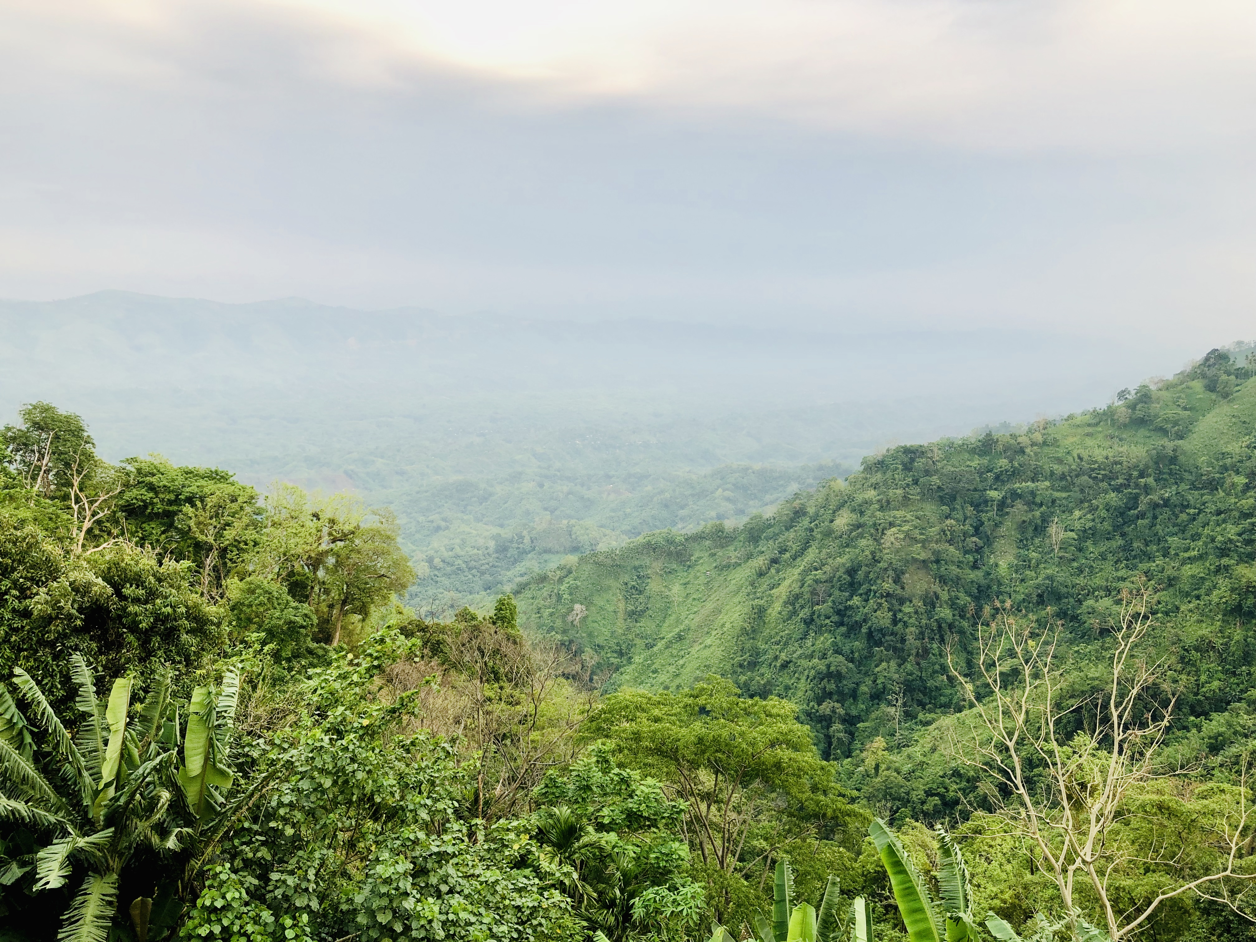 One can see Mizoram